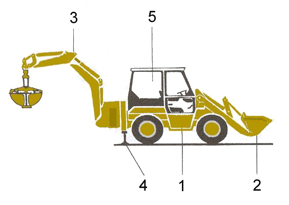 Diagram of a backhoe loader: 1) basic unit, chassis and wheels 2) front loder attachment (bucket/shovel) 3) backhoe with attachment (a grapple here; a small digging bucket is more common) 4) hydraulic stabilizing outriggers 5) driver's cab